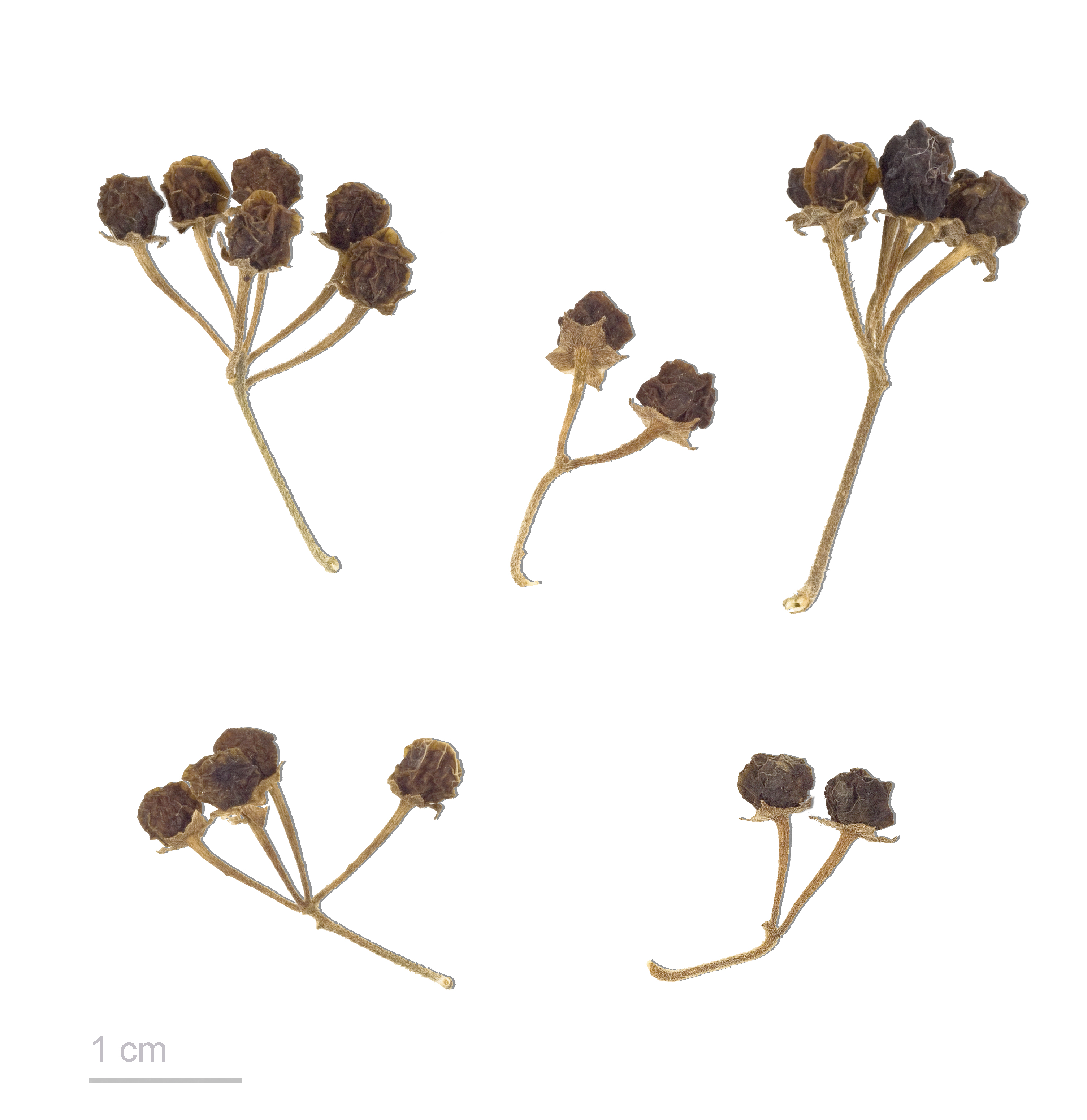 Solanum chenopodioides , fruits and seeds